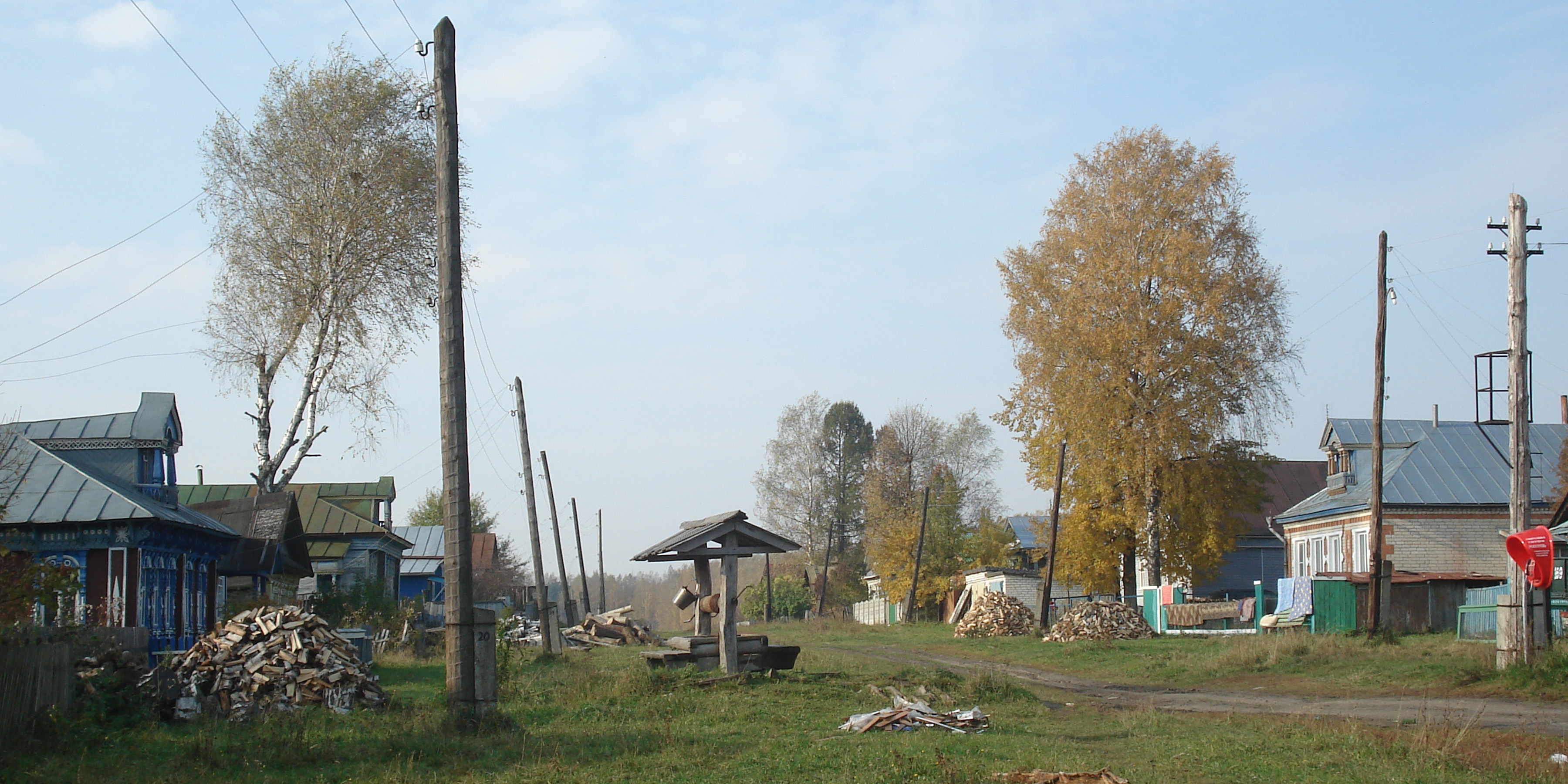 The west side of the village of Talinskoe. Nizhegorodskaya oblast. Russia.